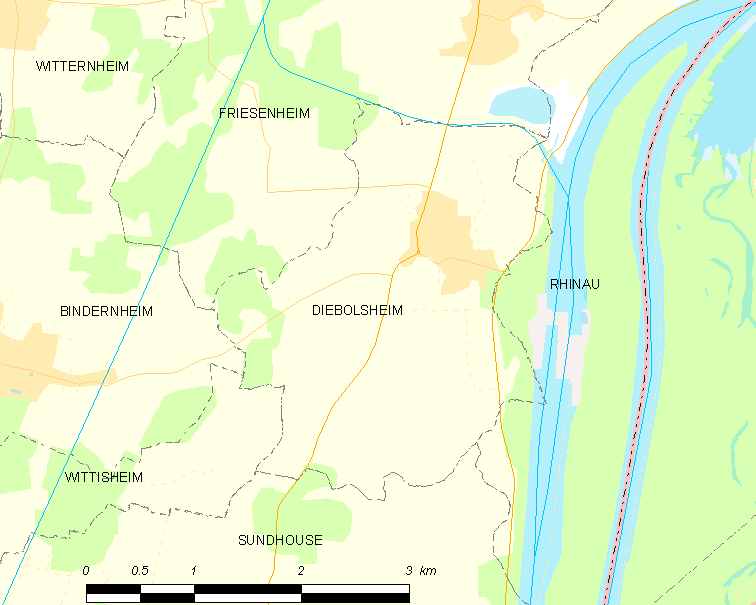 Map of French municipality